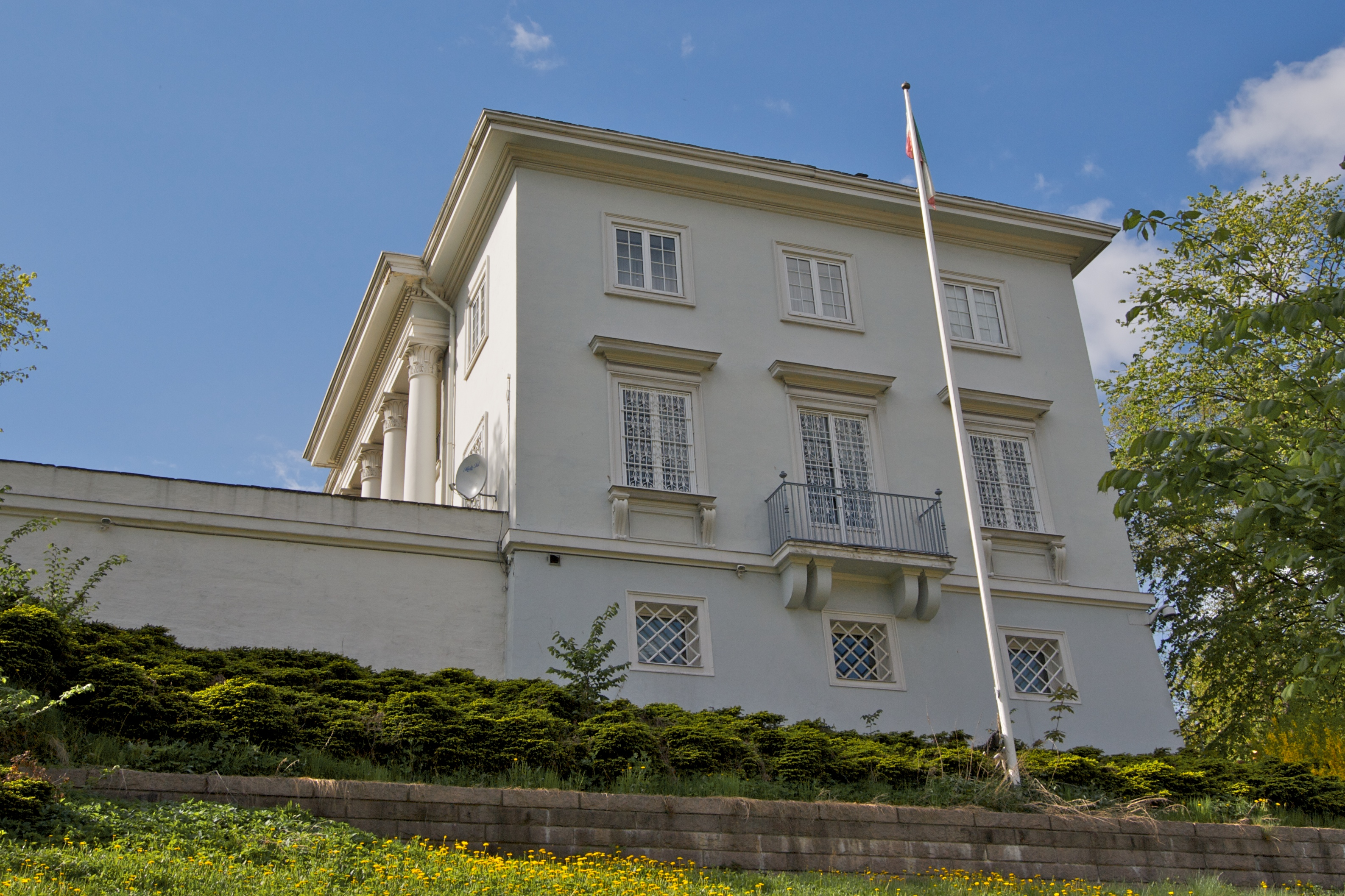 Embassy of Iran, Oslo, Norway.